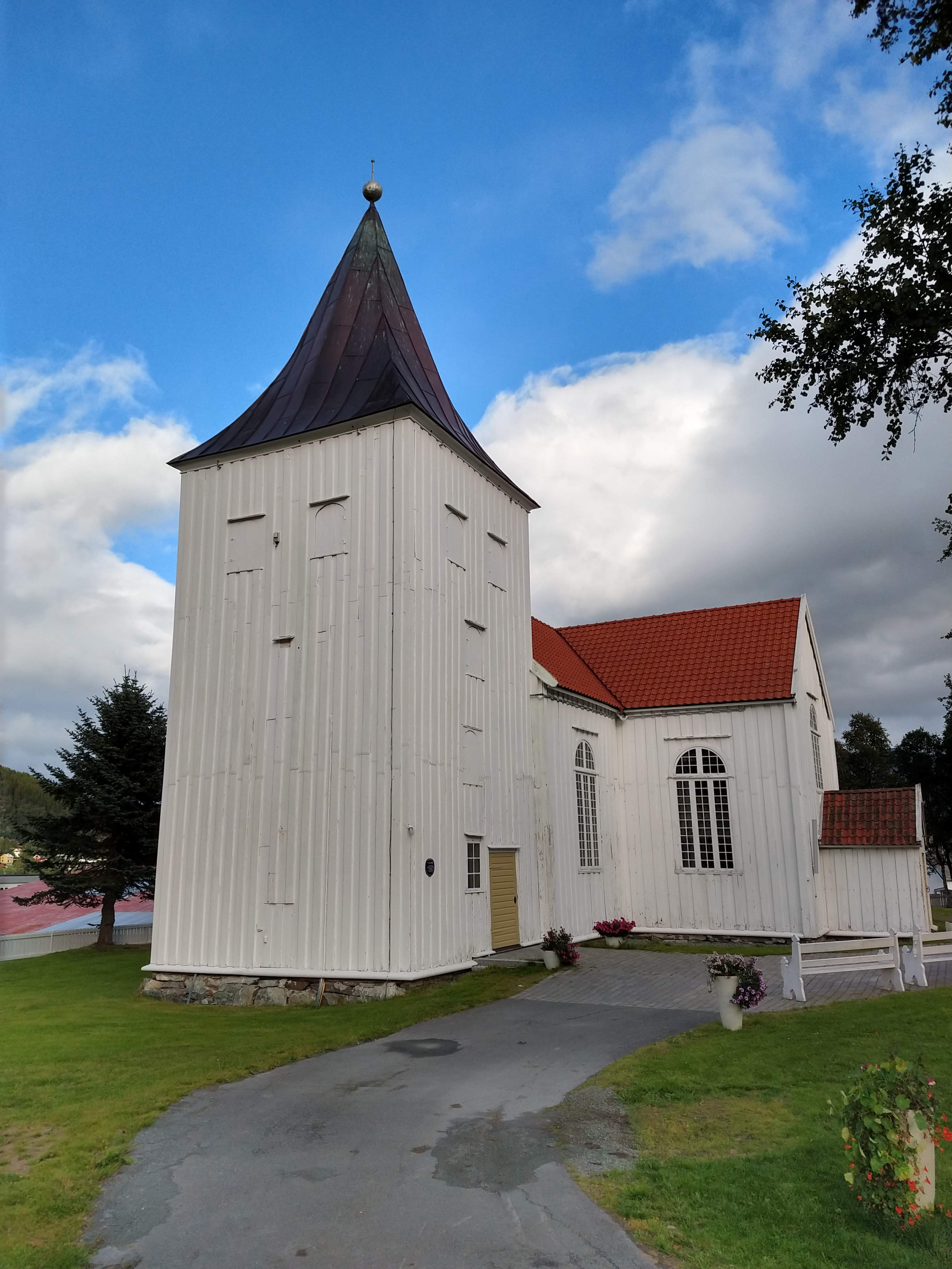 Lyngen church, Norway